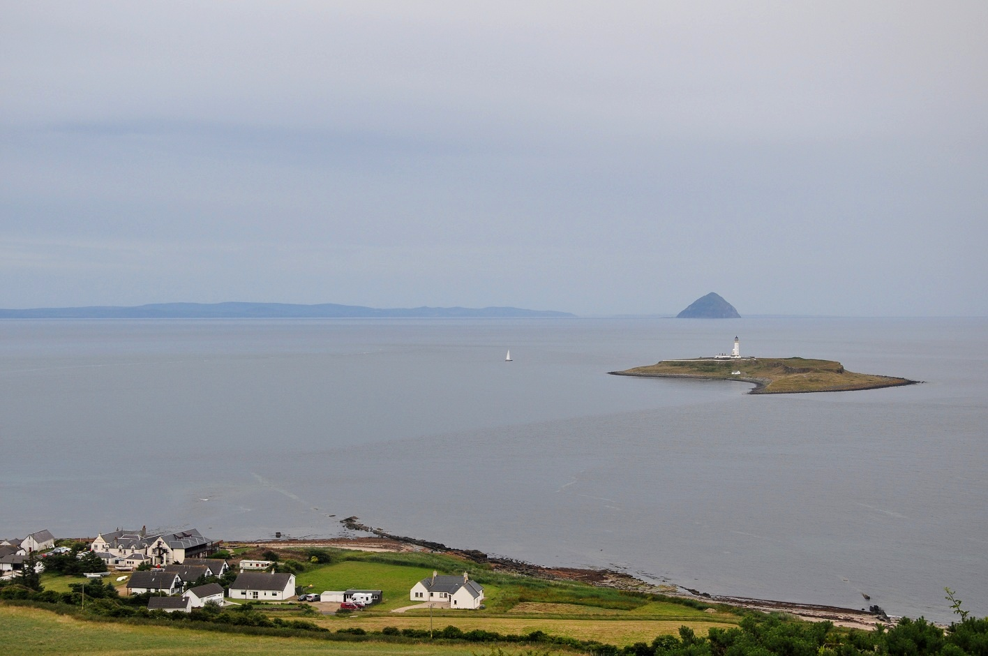 Kildonan, Isle of Arran, North Ayrshire, Scotland: The Kildonan Hotel and surrounding buildings with Pladda Island (on the right), seen from Drumla farm. The dikes heading out into the water can be clearly seen. In the distance in the Firth of Clyde is the volcanic island of Ailsa Craig (South Ayrshire) with the South Ayrshire coast on the horizon.